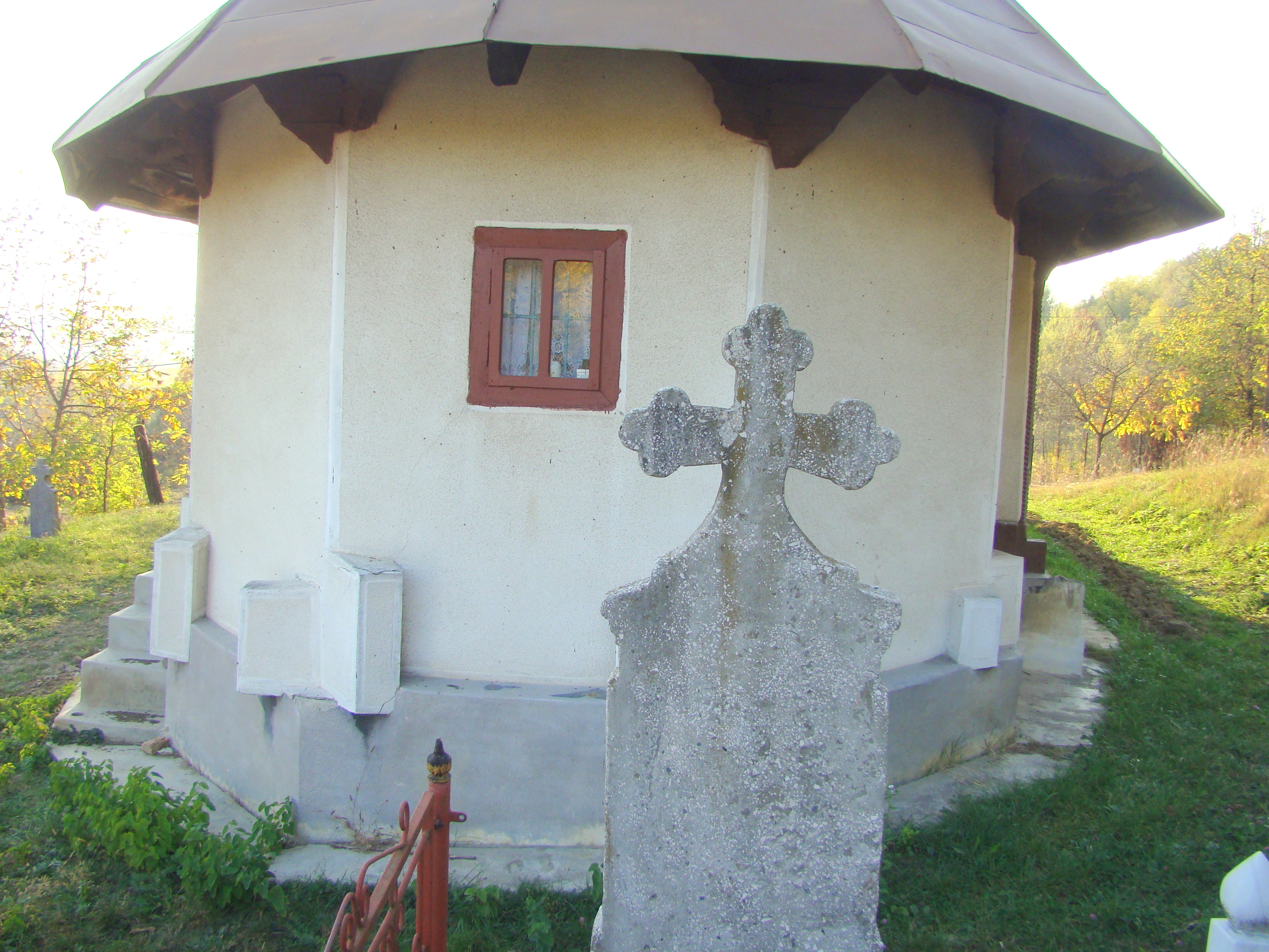 Wooden church in Horăști, Gorj county, Romania